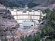 The Flaming Gorge Dam under construction.